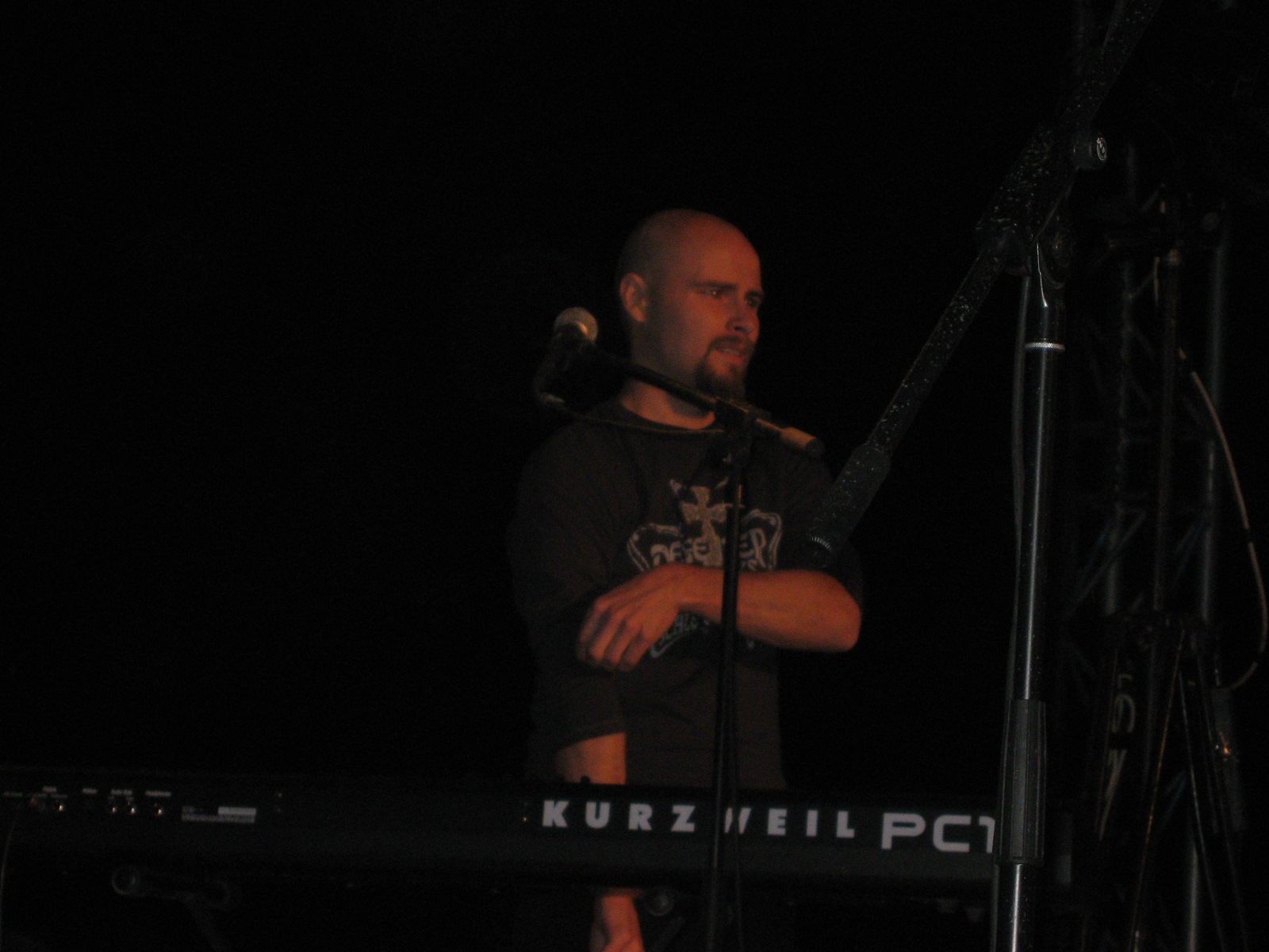 Fredrik Hermansson Live on tour with Pain of Salvation.